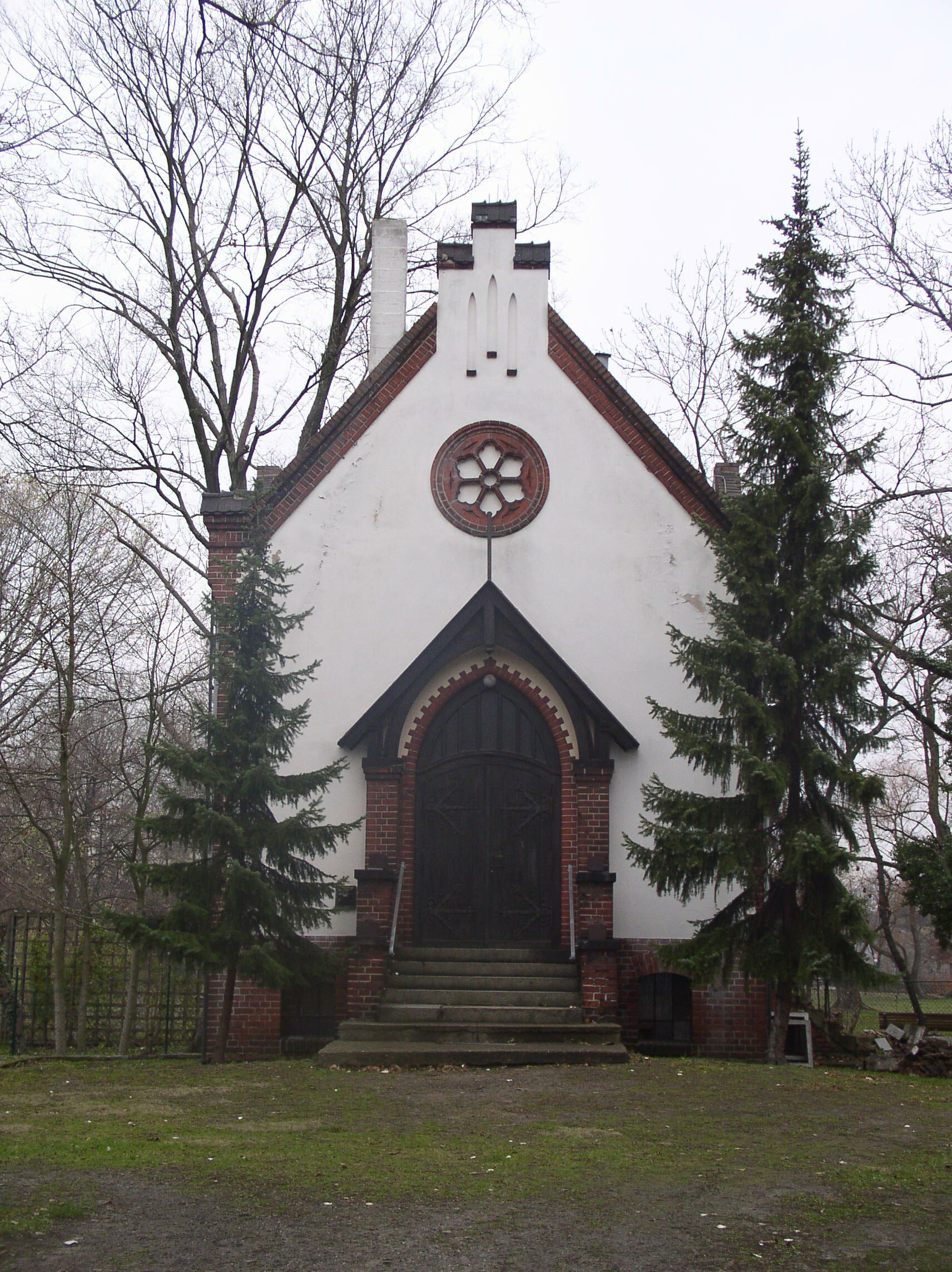 Building at the Churchyard of Berlin-Stralau